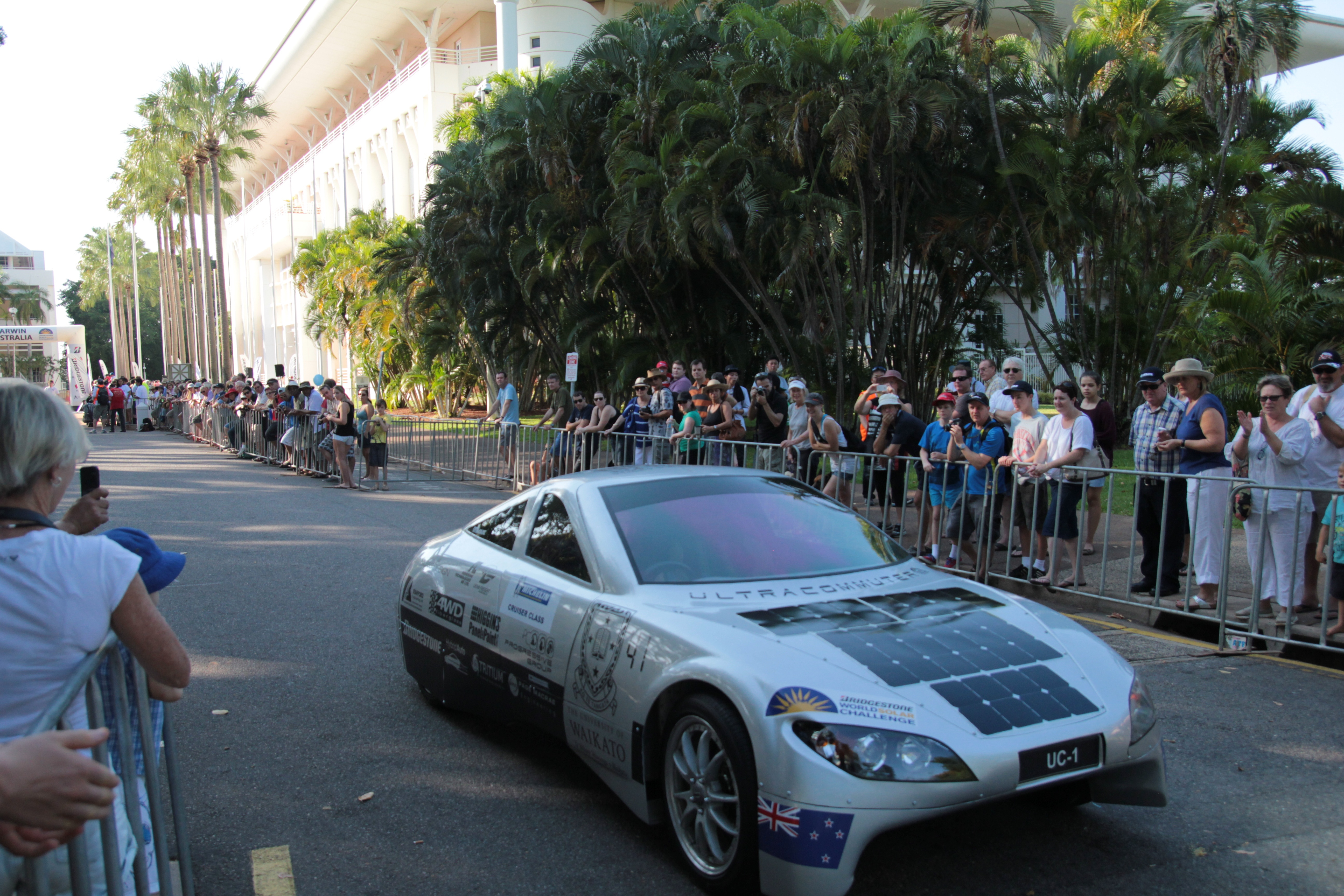 New Zealand's University of Waikato/HybridAuto with UltraCommuter